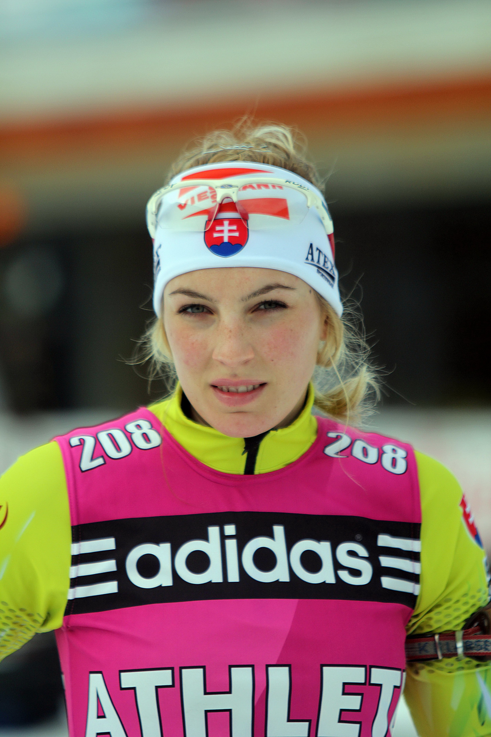 Terézia Poliaková at Biathlon IBU-Cup 2011 in Obertilliach